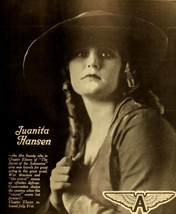 Advertisement in Moving Picture World